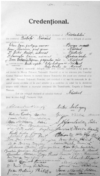 Mandate of the elective circumscription of Năsăud, in which it says that Romanian politician Ioan Păcurariu was elected deputy in the Great National Assembly from Alba Iulia, as it can be seen in the first column on the upper-left side of the document - Romania, 1918Română: Credenționalul cercului electoral Năsăud, în care scrie că Ioan Păcurariu a fost ales deputat în Marea Adunare Națională de la Alba Iulia, așa cum se poate vedea pe prima coloană din partea stângă-sus a documentului